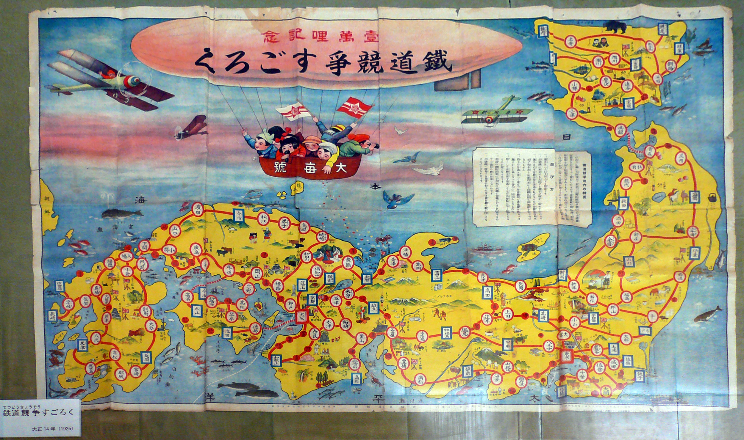 Japanese games "Sugoroku", Board game of train.